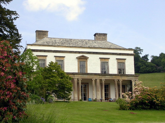 Bagborough House The house was built by Thomas Popham in 1739 and is now owned by Diana and Philip Brooke-Popham who have held wedding receptions here for nearly 25 years.